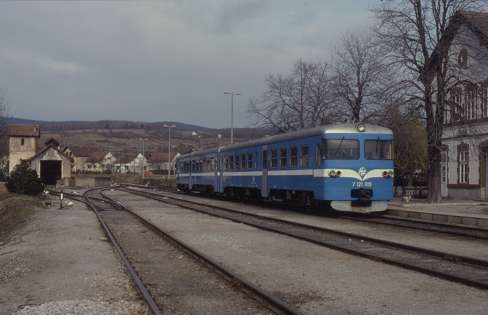 HŽ 7121 at Velika train station.